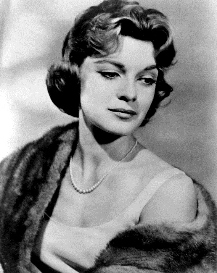 press photo of Gail Kobe in 1959